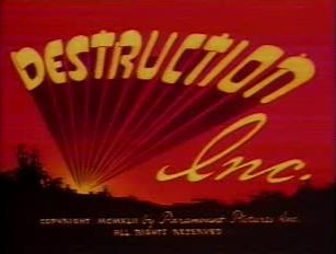 The title screen of the animated short entitled "Destruction, Inc."